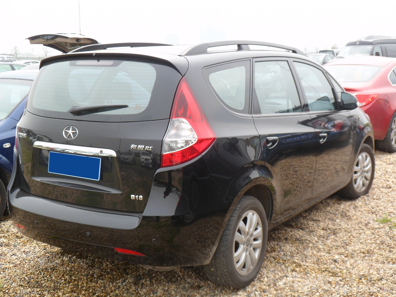 JAC Heyue RS photographed in Anting, Shanghai municipality, China.